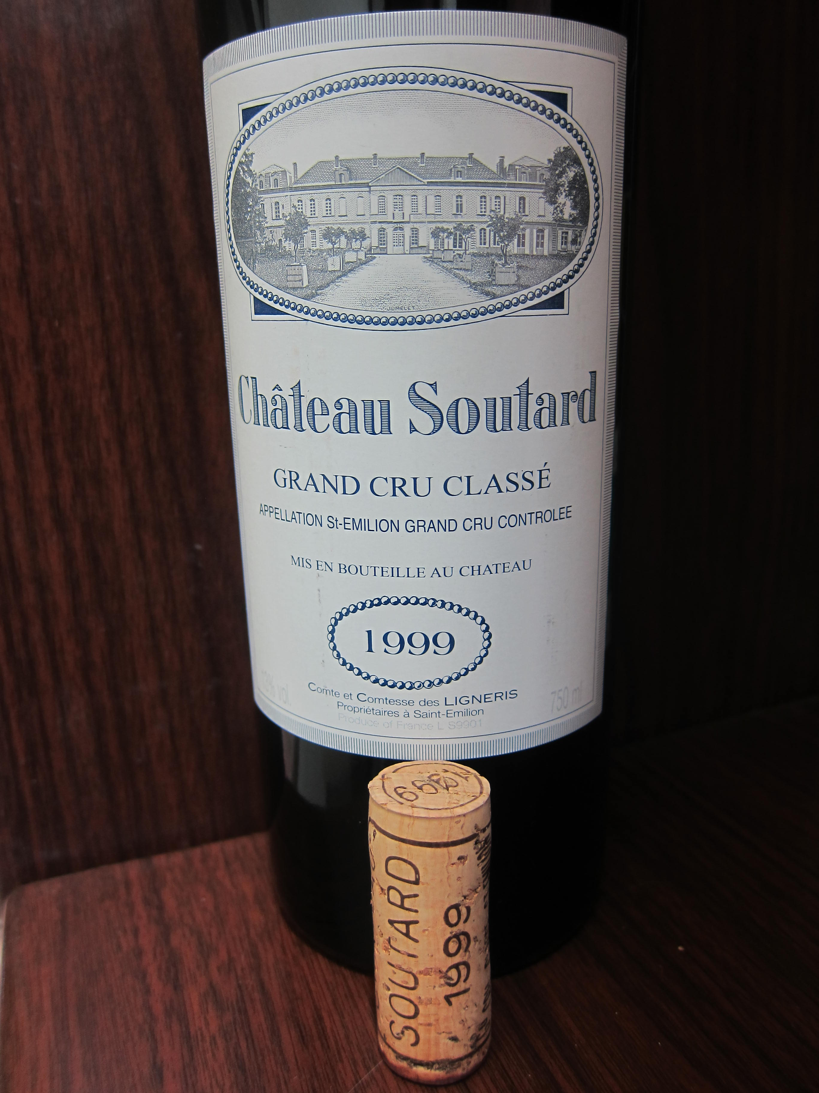 Label and cork of Chateau Soutard